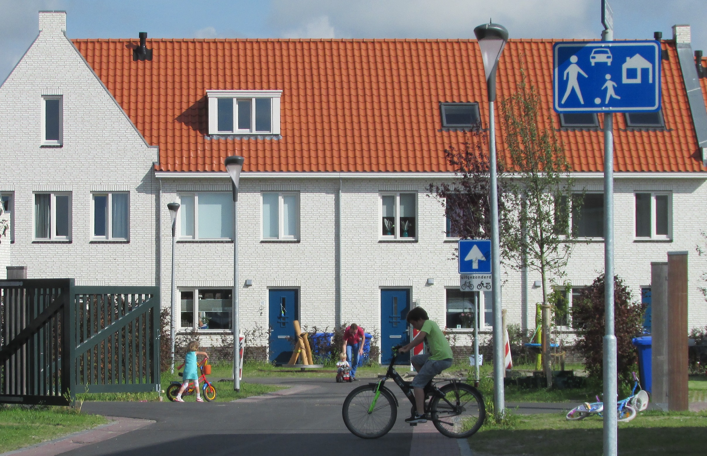 new woonerf in rijswijk